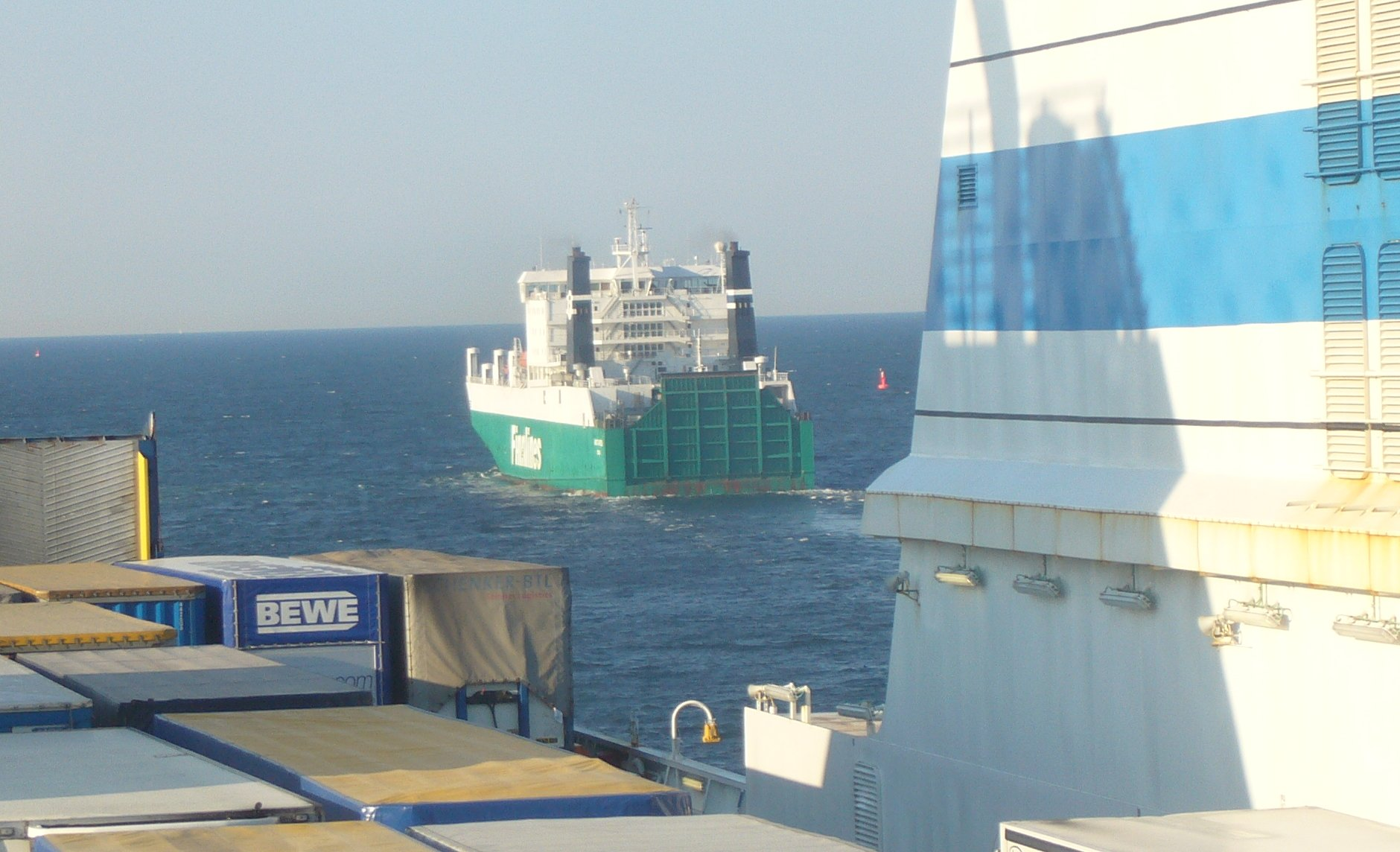 Norwegian cargo ship M/S Antares front of Travemünde, Germany. IMO Number: 8500680 MMSI Number: 257689000 Callsign: LAPW5 Length: 157 m Beam: 25 m